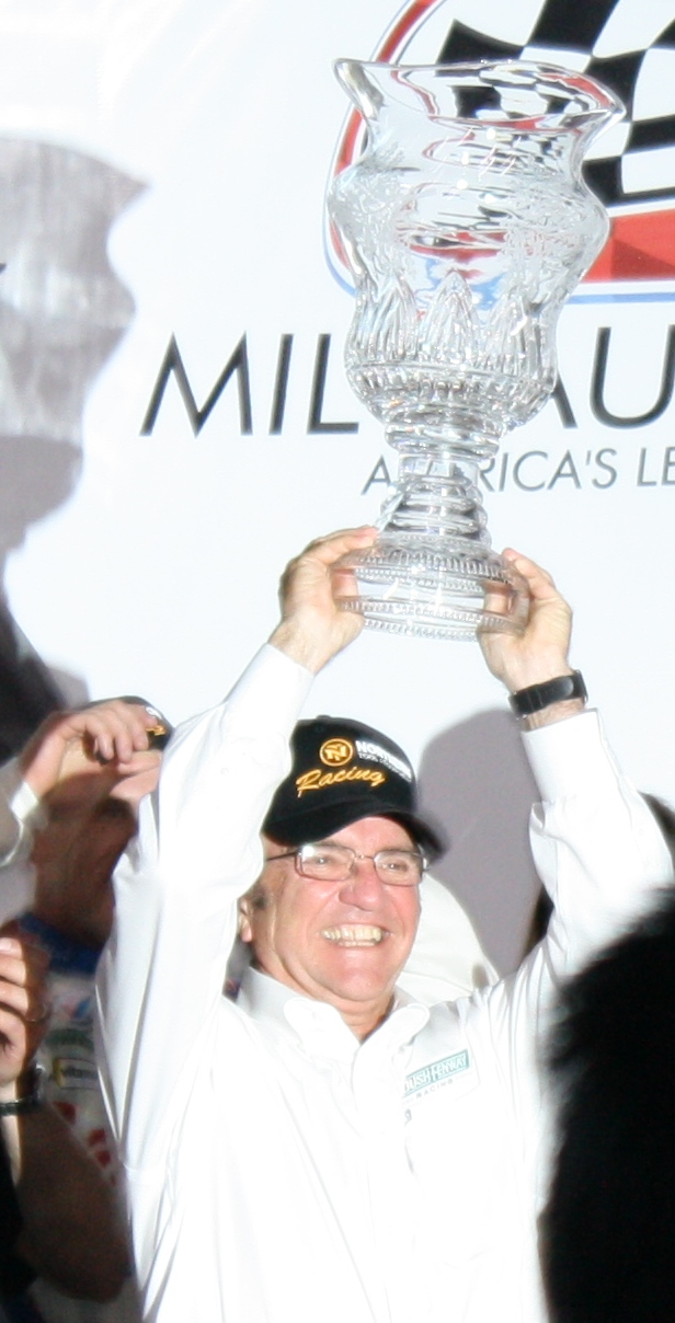 NASCAR owner Jack Roush holding the winner's trophy after one of his drivers won the race at the Milwaukee Mile.